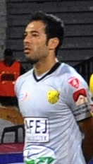 Anas Zniti, September 2011